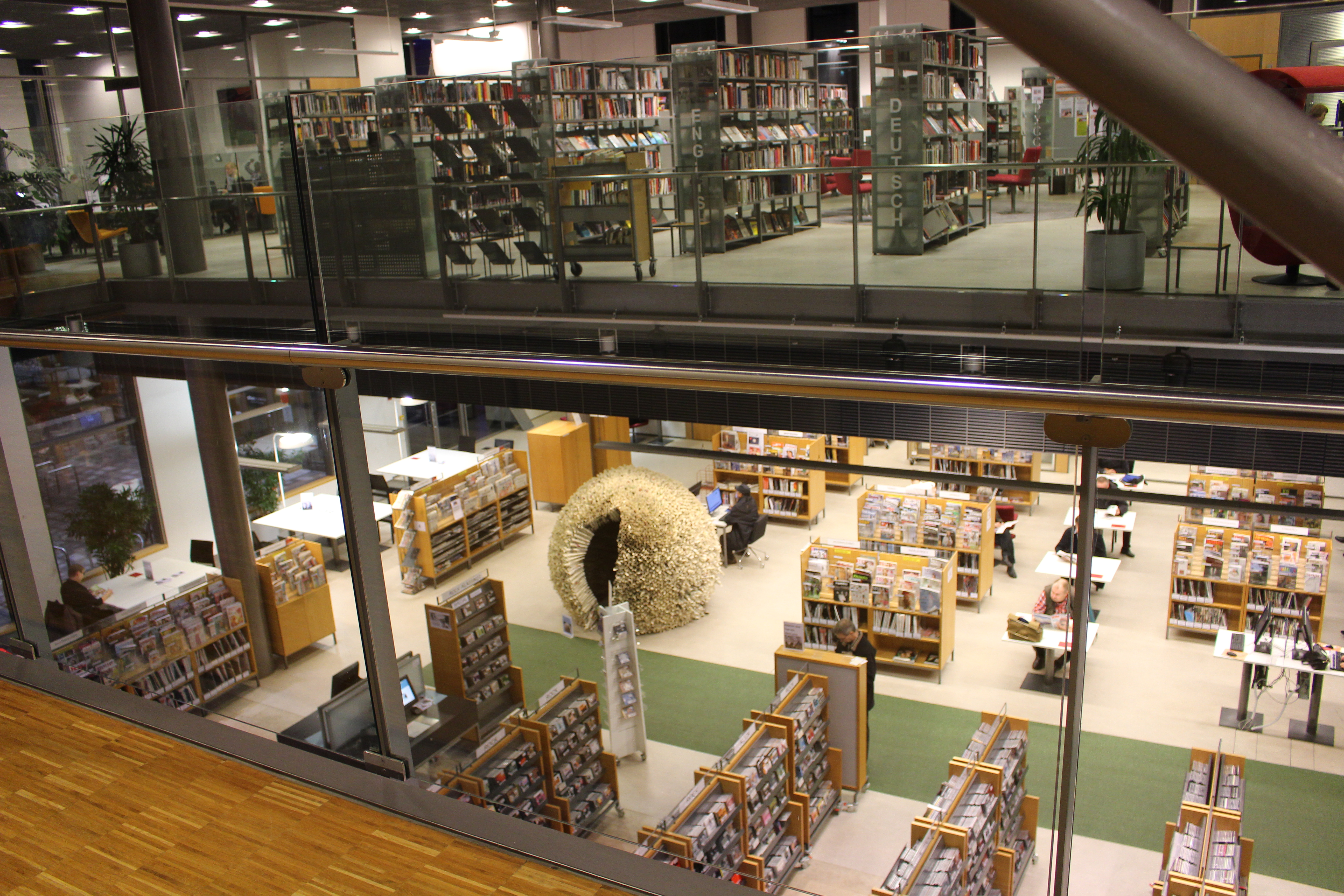 Interior of Sello Library in Espoo, Finland